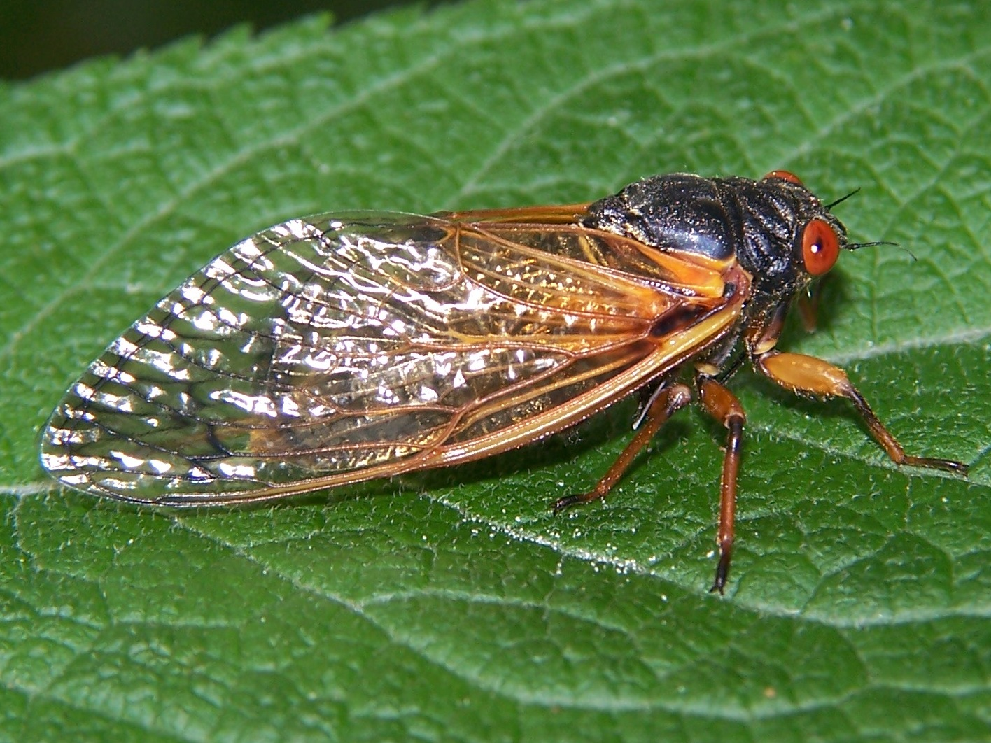 17-year periodic cicada, Magicicada sp. brood XIII, 2007. Photographed at Lisle, Illinois. Shown with Kentucky Coffee Tree - Gymnocladus dioicus